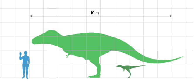 Scale chart for Tarbosaurus bataar. The juvenile is based on a juvenile specimen (2-3 years old), found in Gobi Desert 2006..[1] References ↑ Tsuihiji T et al. (2011), "Cranial Osteology of a Juvenile Specimen of Tarbosaurus bataar (Theropoda, Tyrannosauridae) from the Nemegt Formation (Upper Cretaceous) of Bugin Tsav, Mongolia", Journal of Vertebrate Paleontology 31(3): p. 497-517.